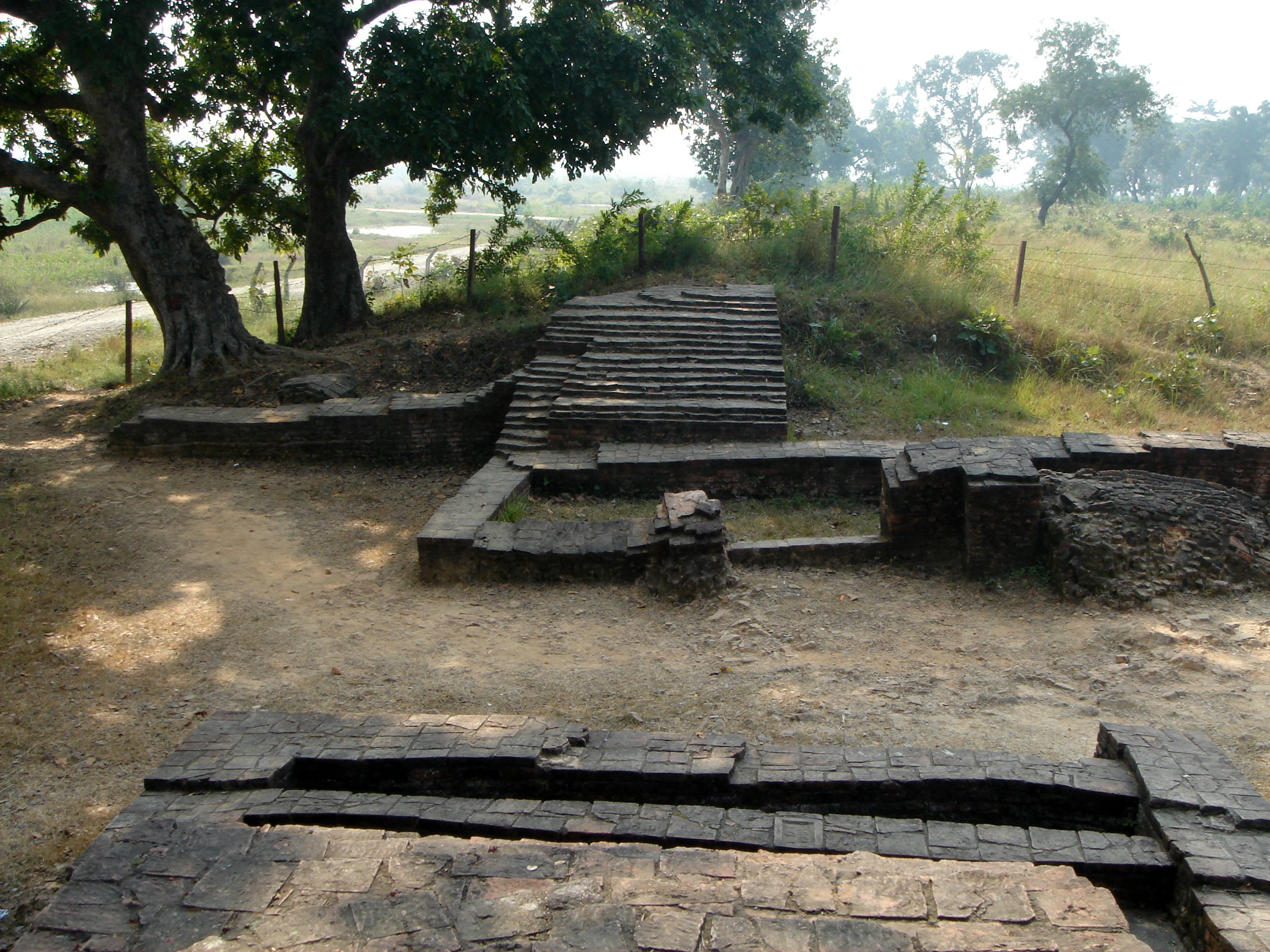 Remains of the Eastern Gate of Kapilavastu (also: Kapilavatthu) in Nepal (close to Lumbini). Gautama Buddha grew up in this city. The Eastern Gate was the gate through which he is supposed to have left the city on his quest to attain the end of suffering.